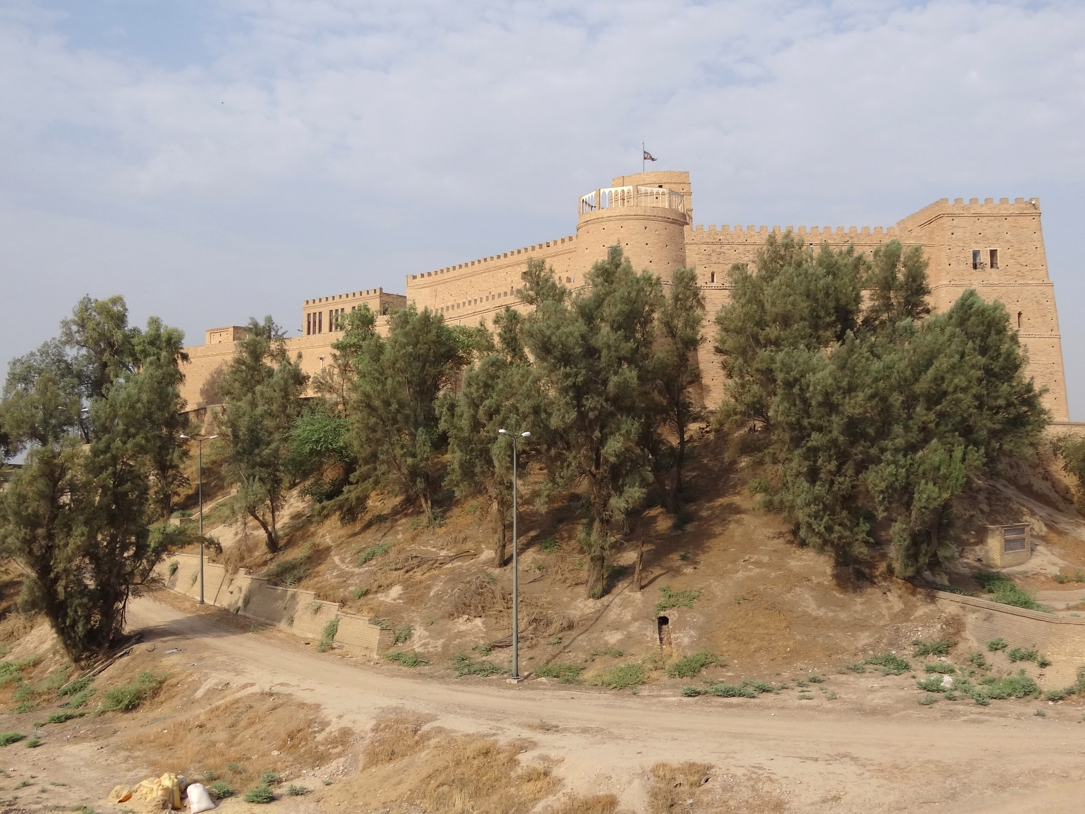 Chateau de Morgan Castle - Shush - Southwestern Iran